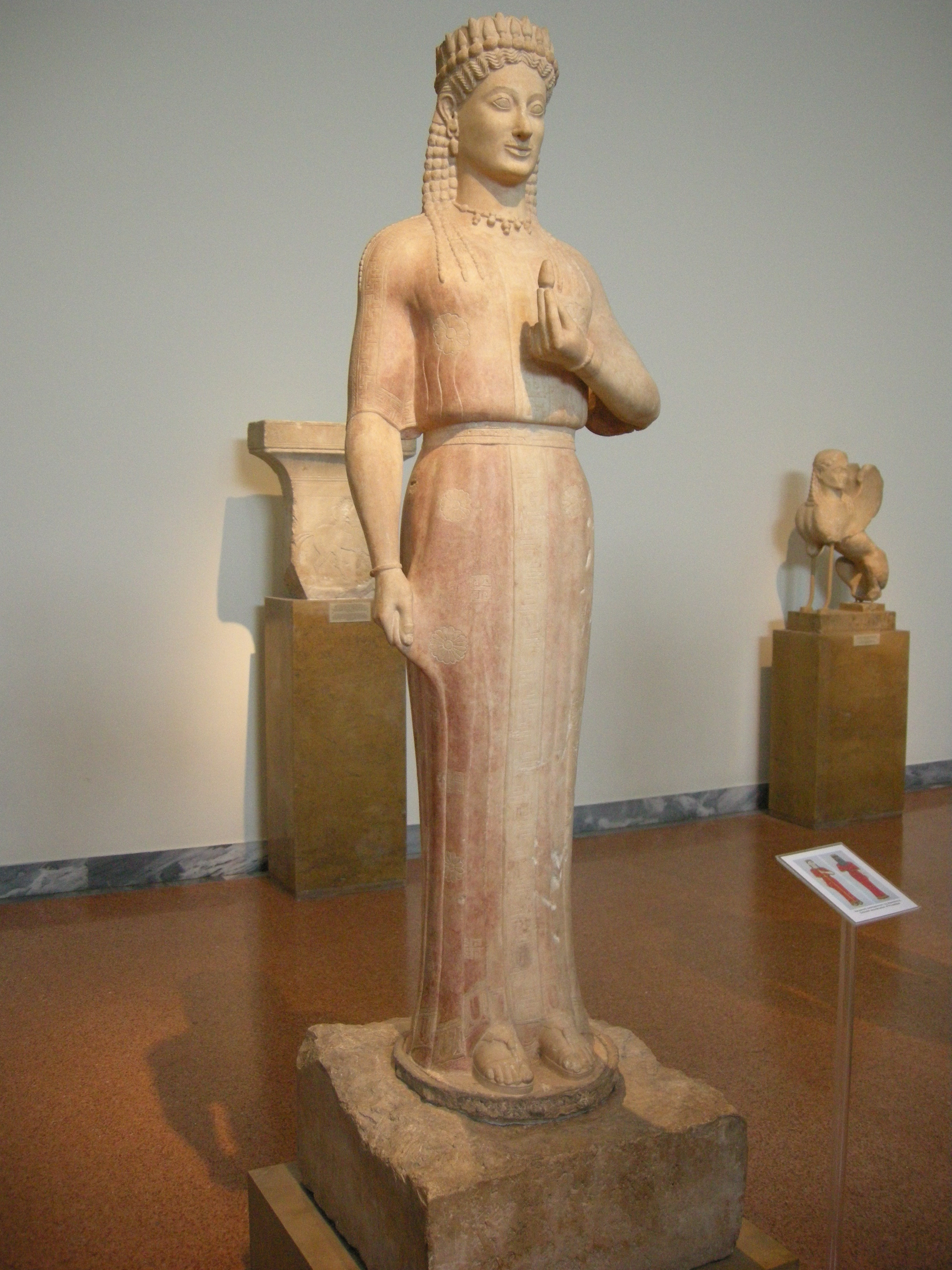 The Phrasikileia Kore, exhibited at the National Archaeological Museum of Athens.